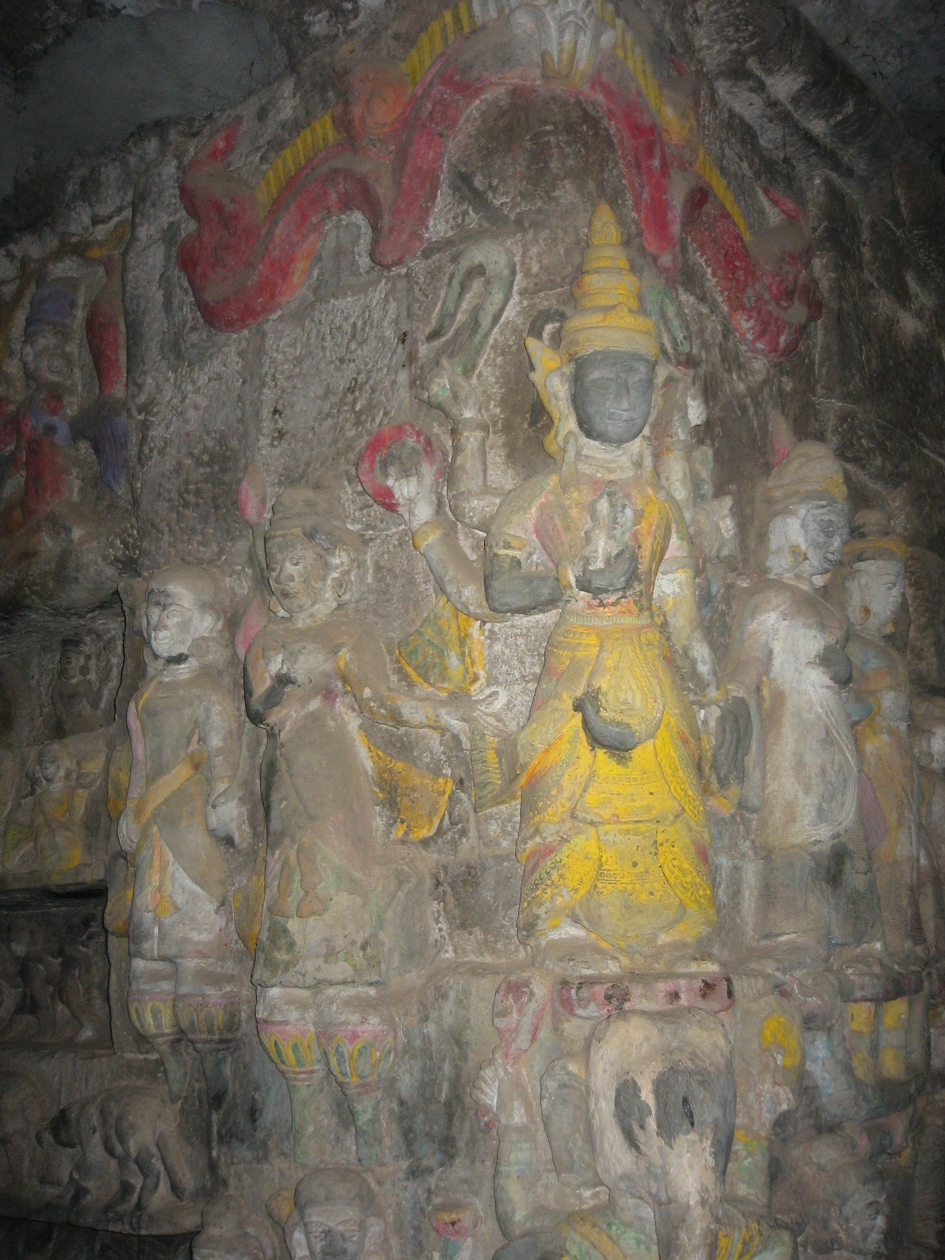 Carvings from Shite-thaung Temple, Mrauk U, Rakhine, Myanmar